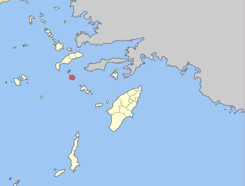 Locator map of Nisyros municipality (Δήμος Νισύρου) in Dodecanese prefecture (Νομός Δωδεκανήσου) in Greece.